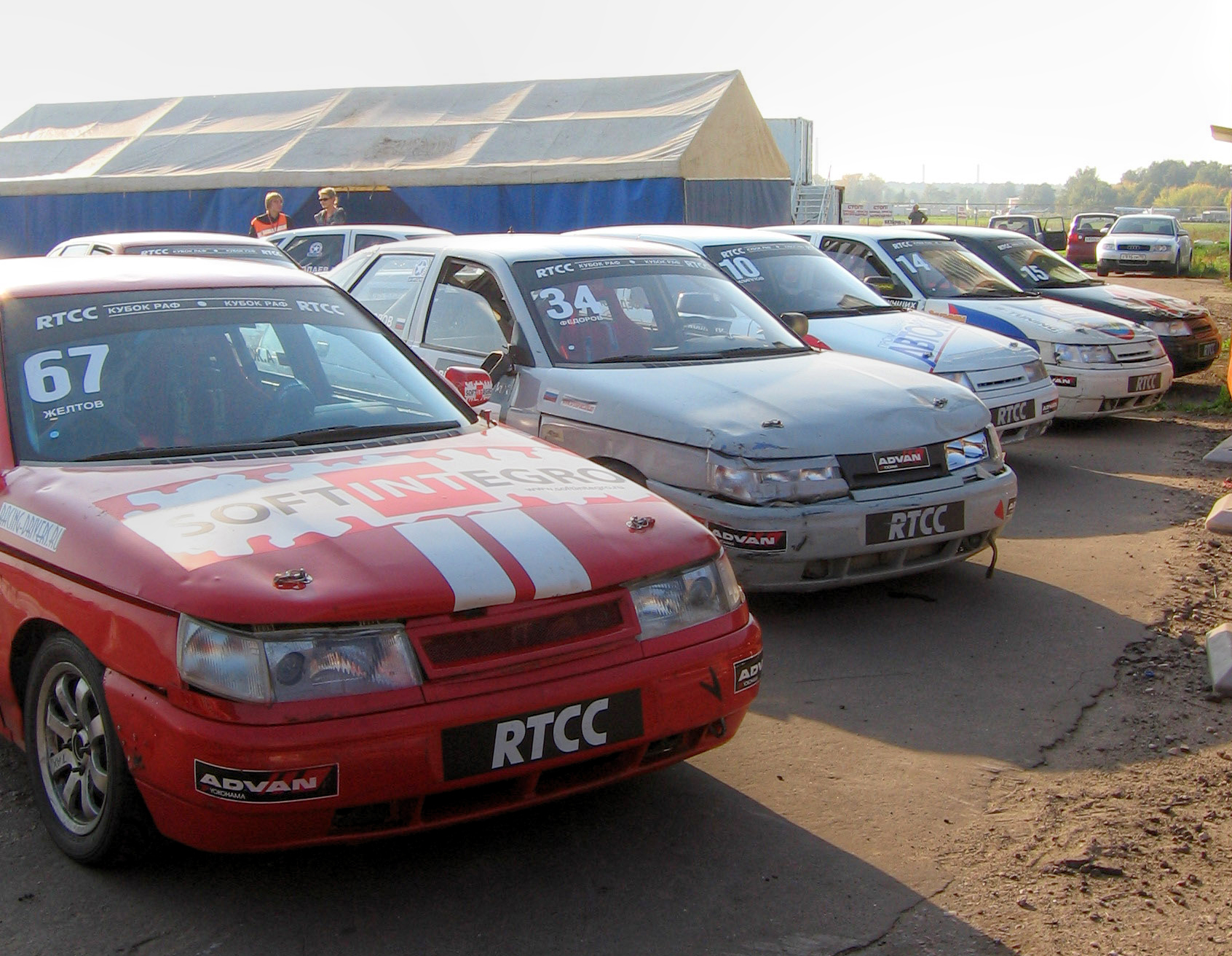 Moscow ring